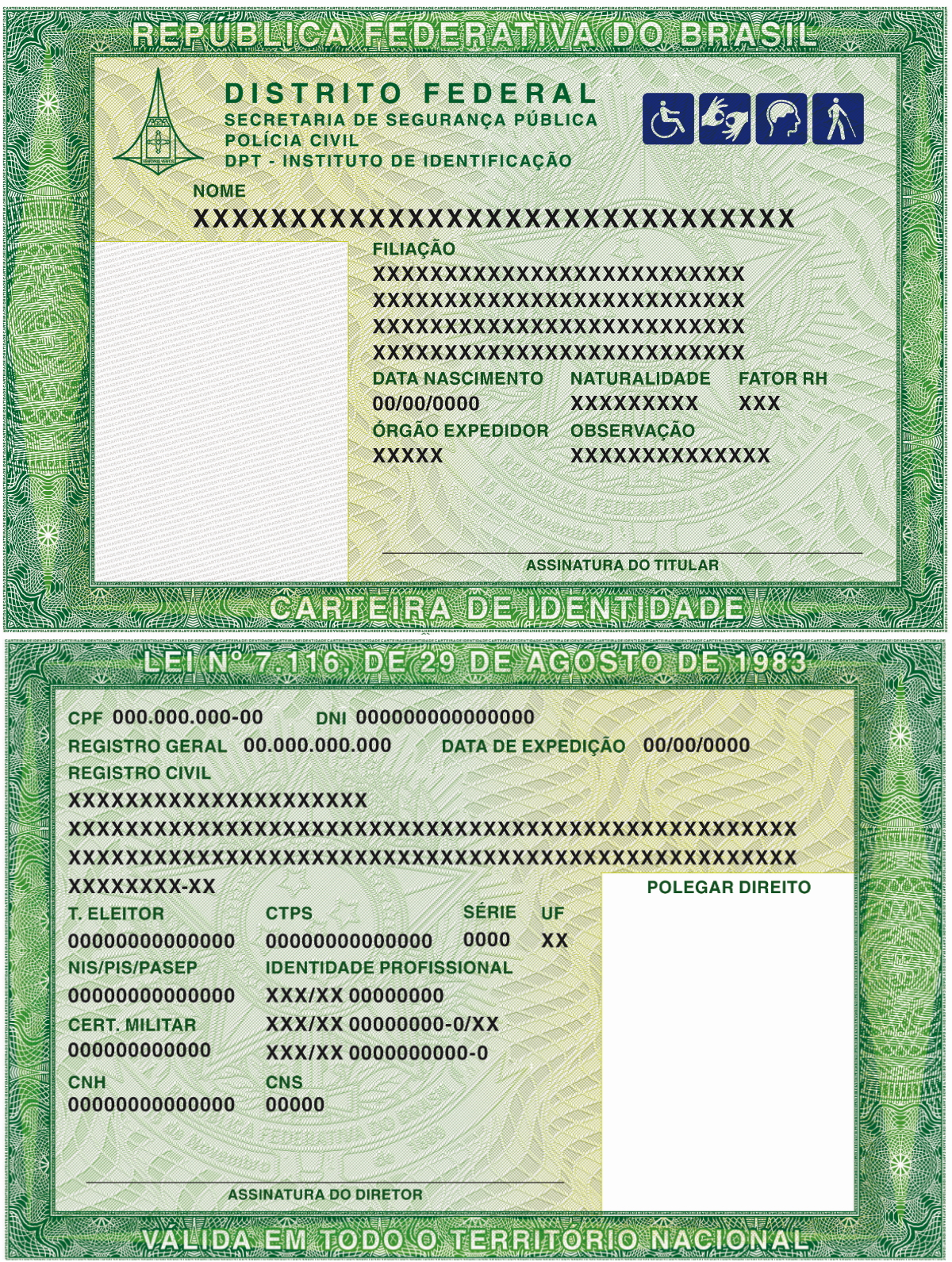 New model of Brazilian identity card from 2019 (paper currency version)